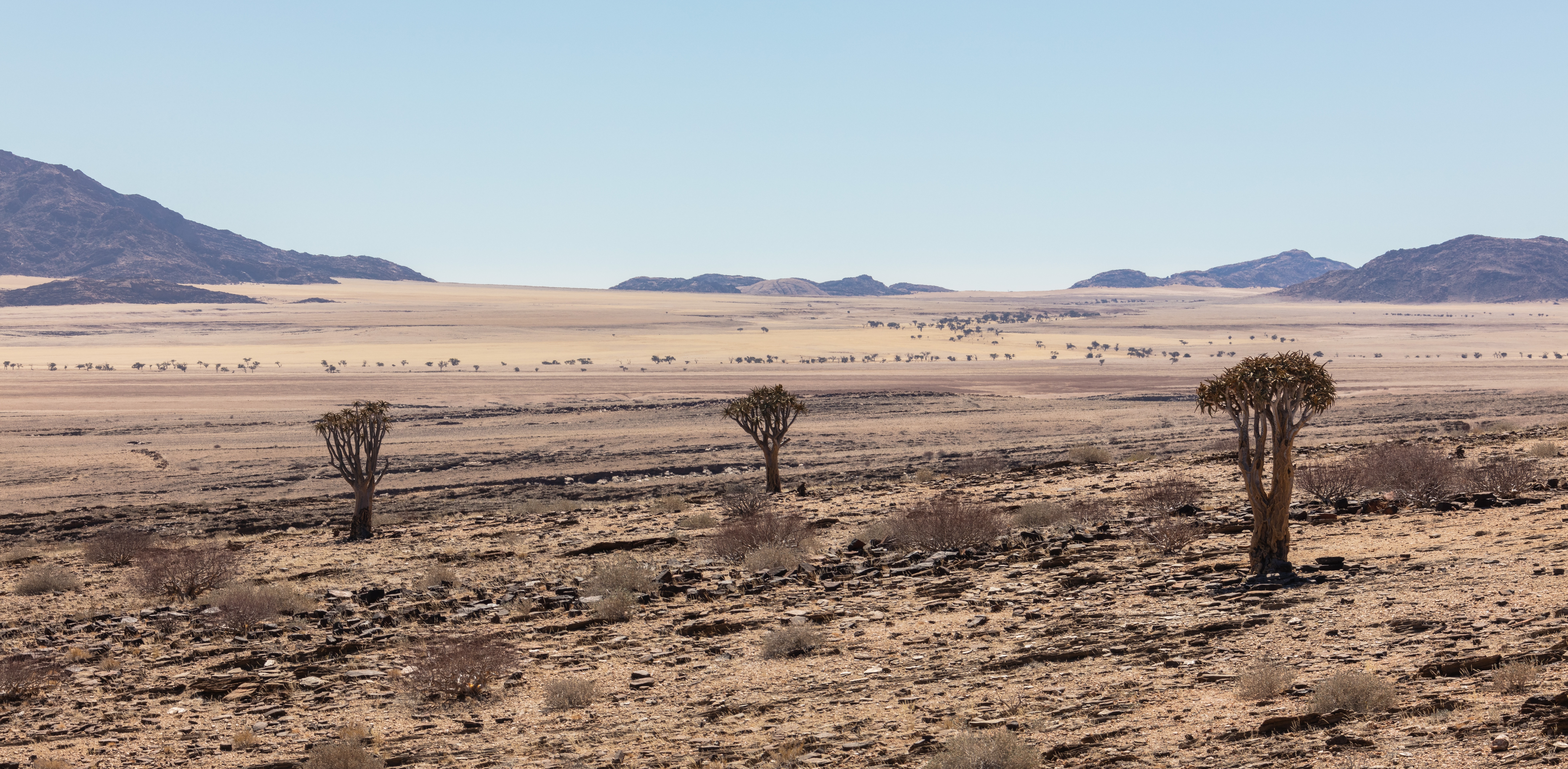 Quiver tree (Aloe dichotoma), Namib-Naukluft National Park, Namibia